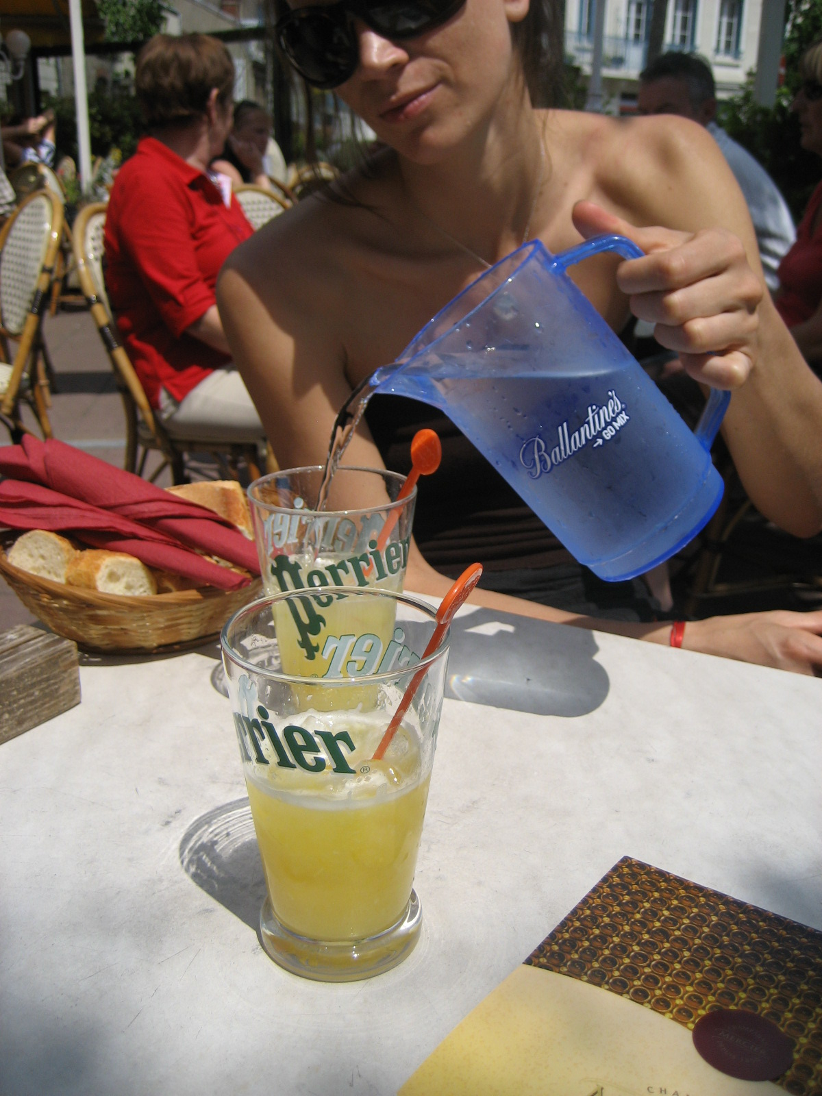 Citron pressé on Avenue de Champagne